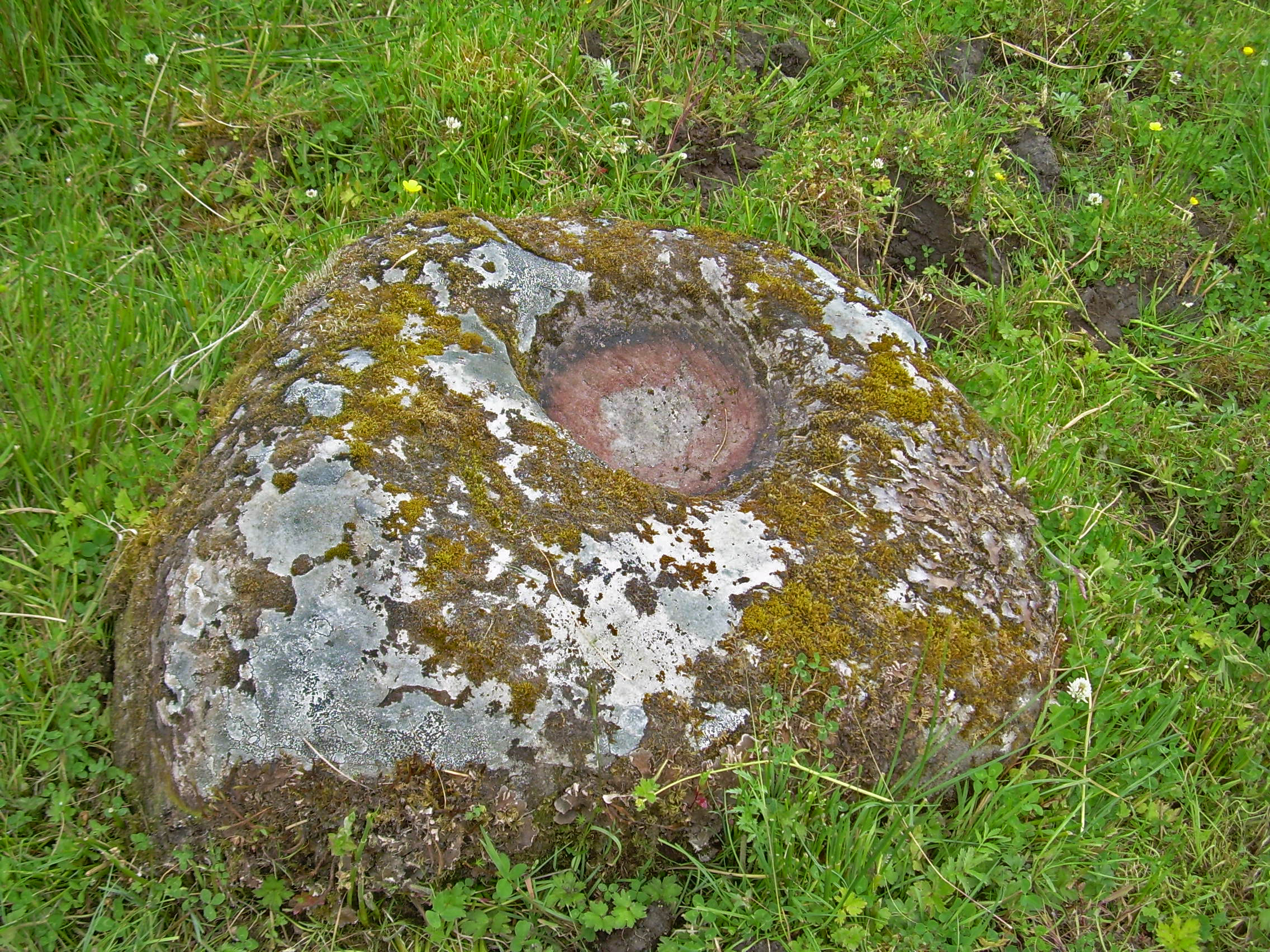 St Fabers Bullan in the townland of Killydrum